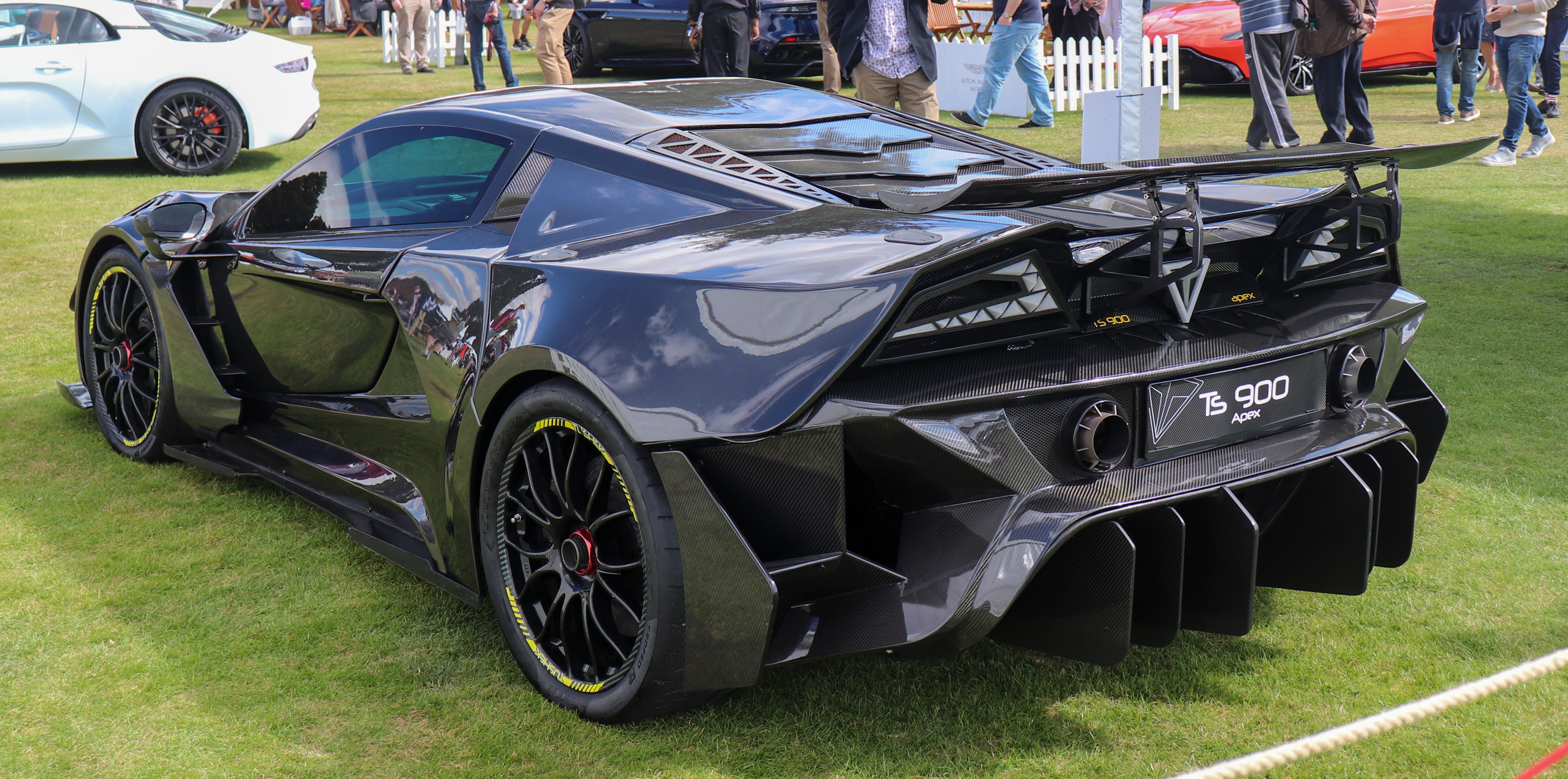 2019 Tushek TS 900 H Apex 4.2 Rear Taken at the Salon Privé Concours d'Elegance Classic Car Motor Show 2019, Blenheim Palace